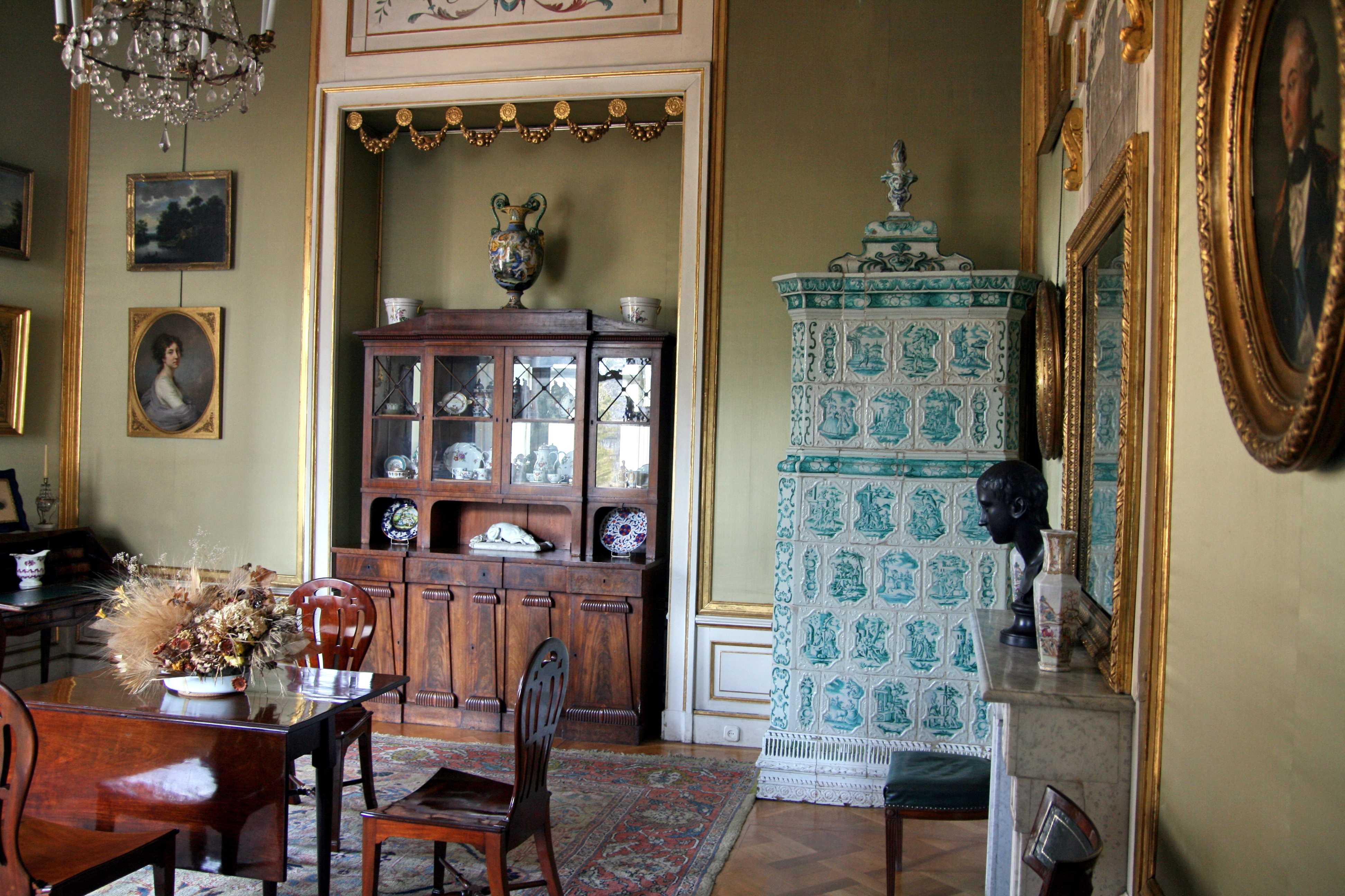 Nieborów Palace - The Green Study